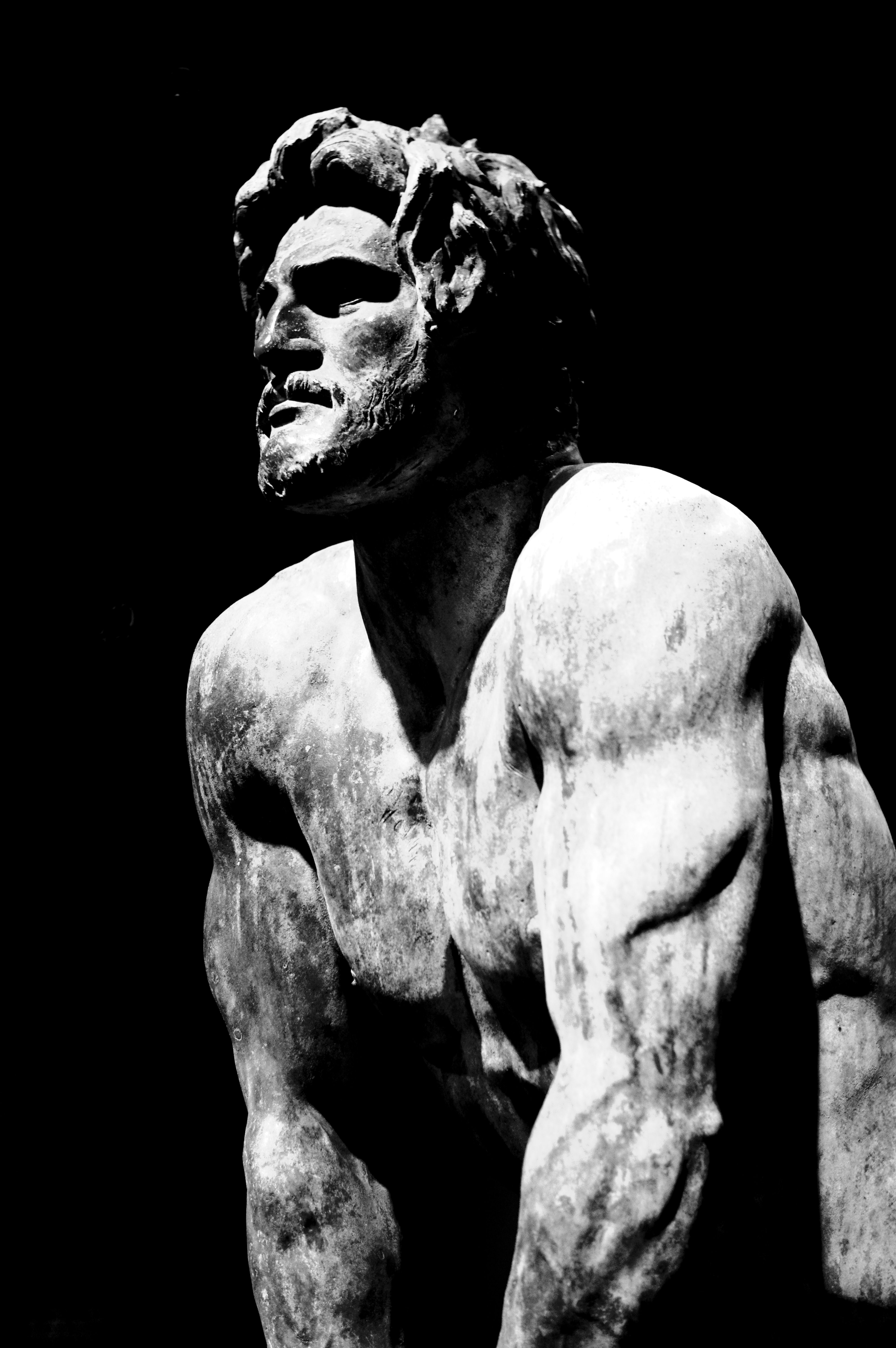 Bronze statue of bar Kokhba in sculpted in 1905 by. Currently in Eretz Israel Museum.